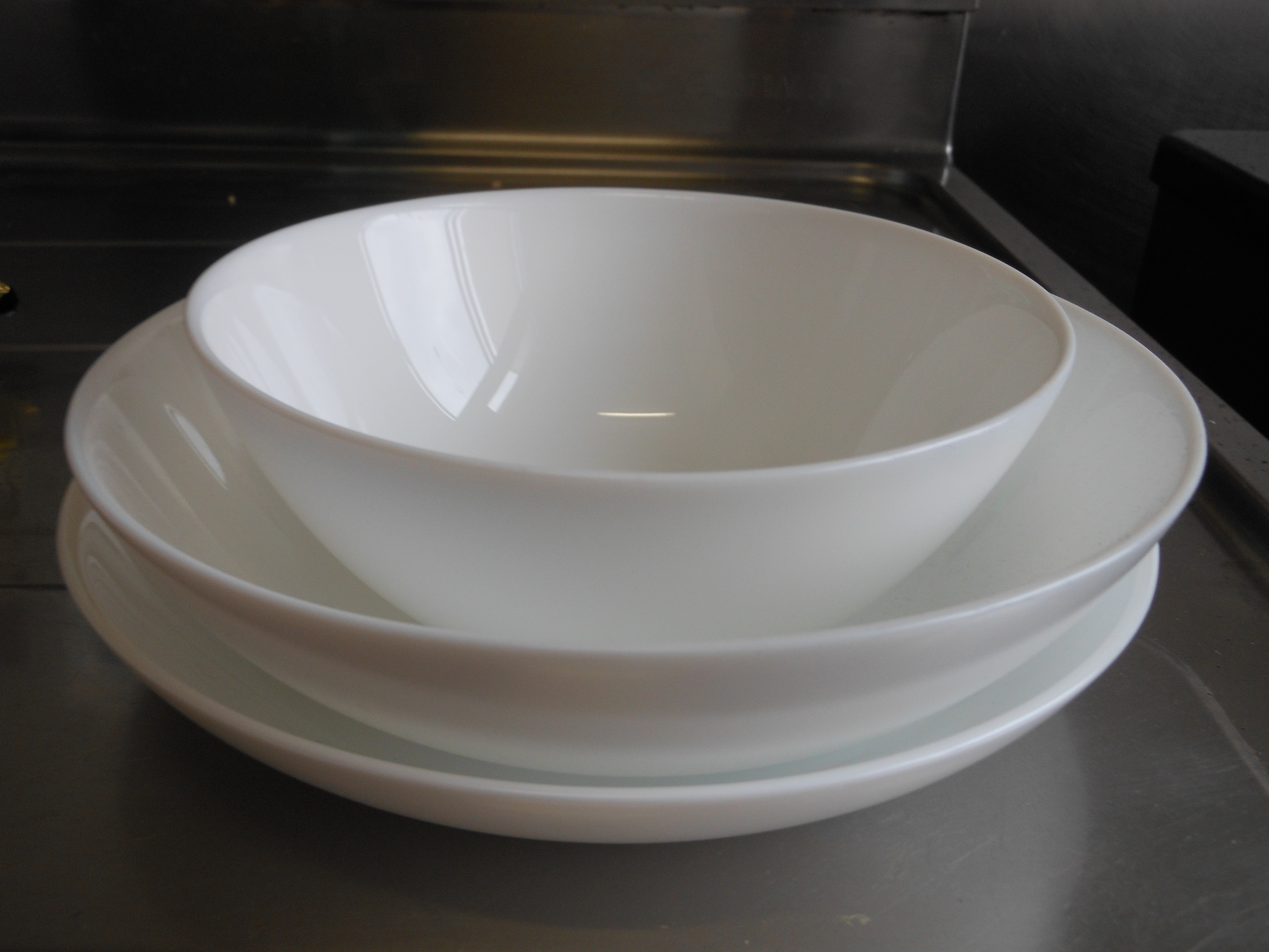 These dishes are giveaways for Yamazaki Spring Festival of Bread.